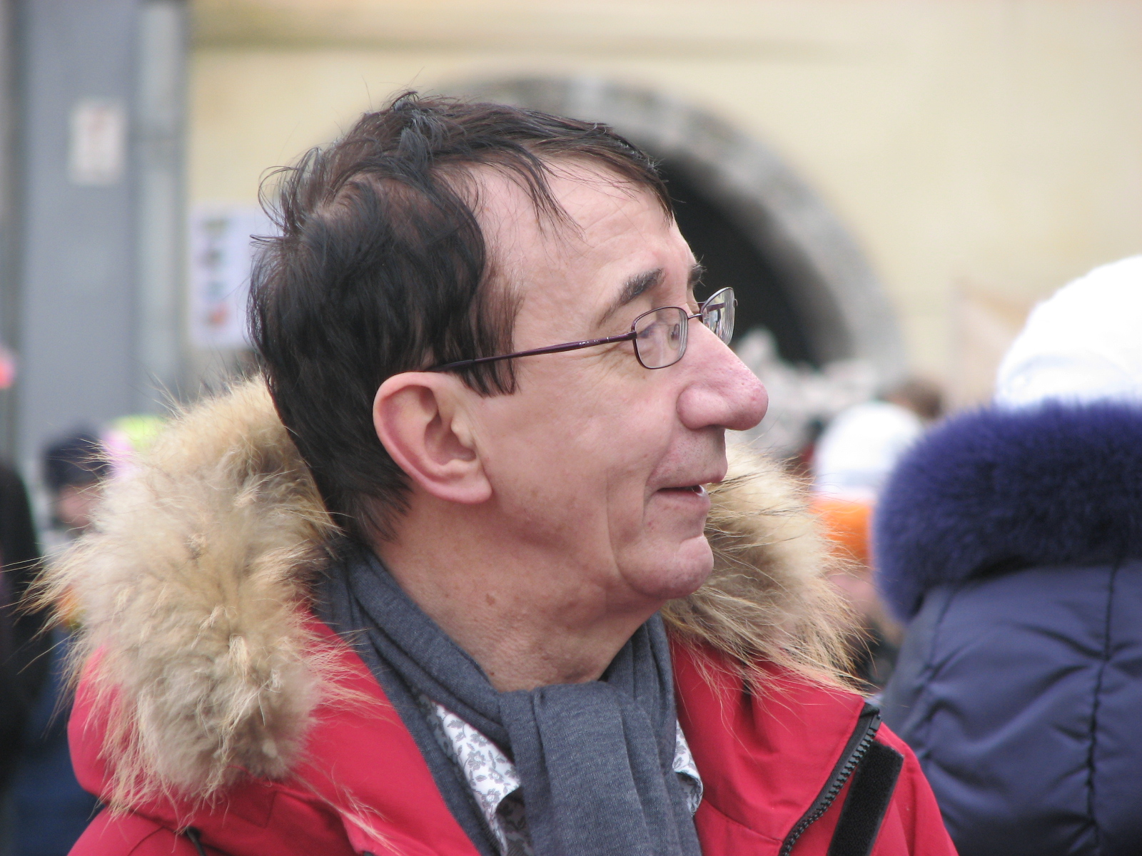 Lauri Leesi enjoying the procession of International Children's Books Day in Tallinn old town